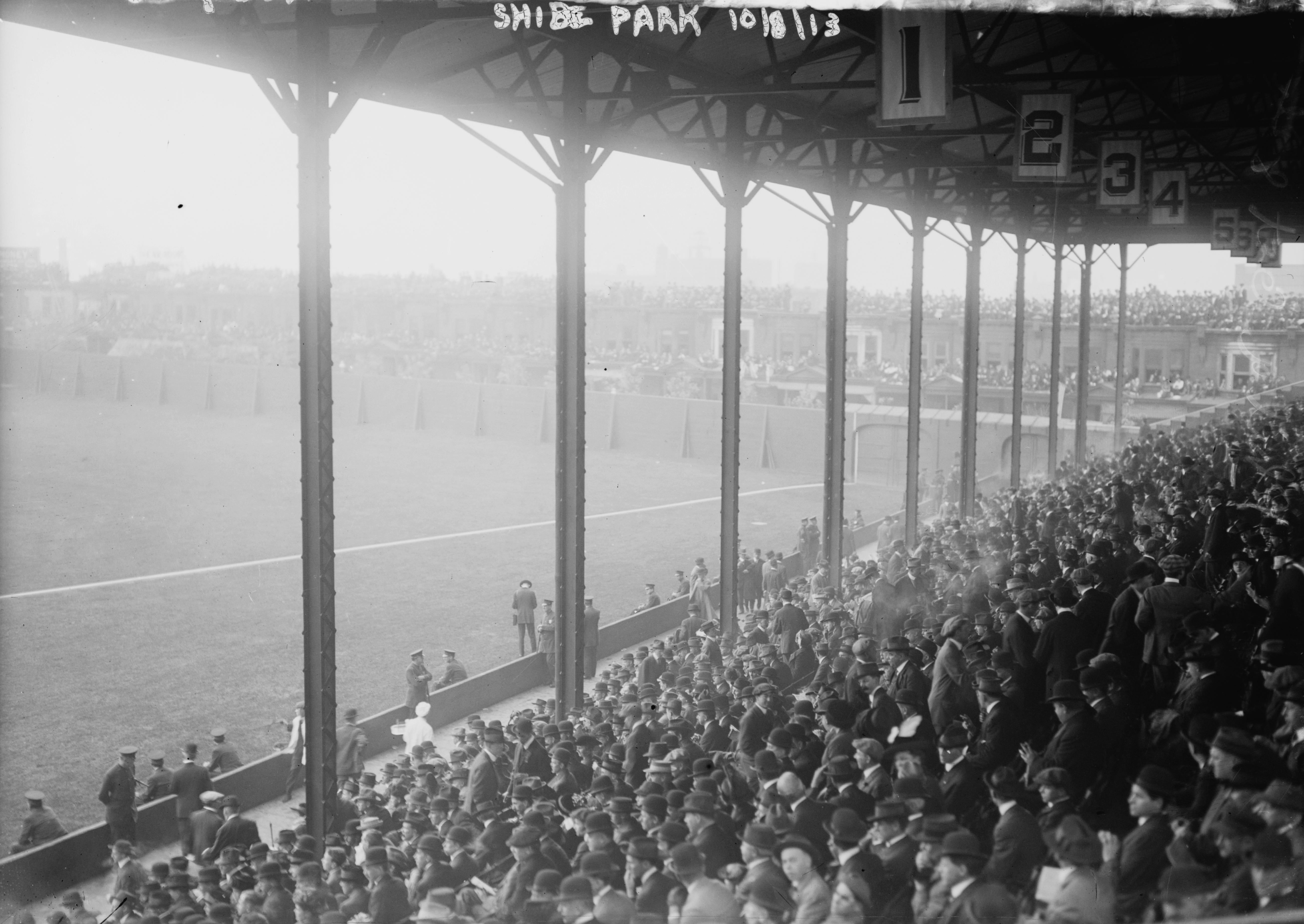 A view from the first base grandstand at Shibe Park during the 1913 World Series.